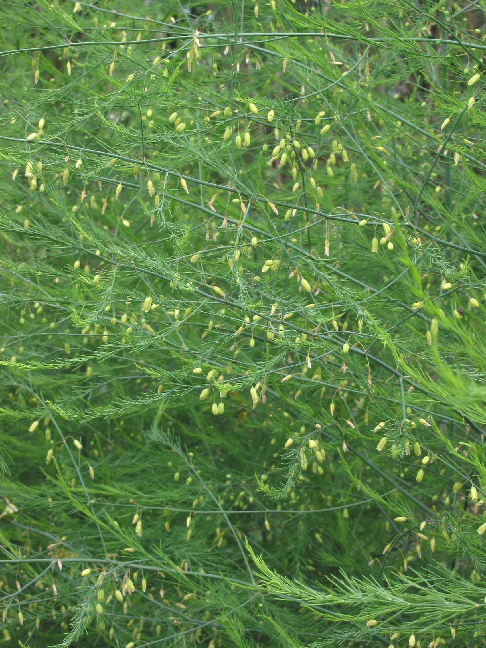 (nl: Asperge in bloei) Asparagus officinalis flowering